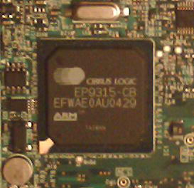 Cirrus Logic EP9315 chip. Photo taken by me, Martin Guy on 3rd March 2009